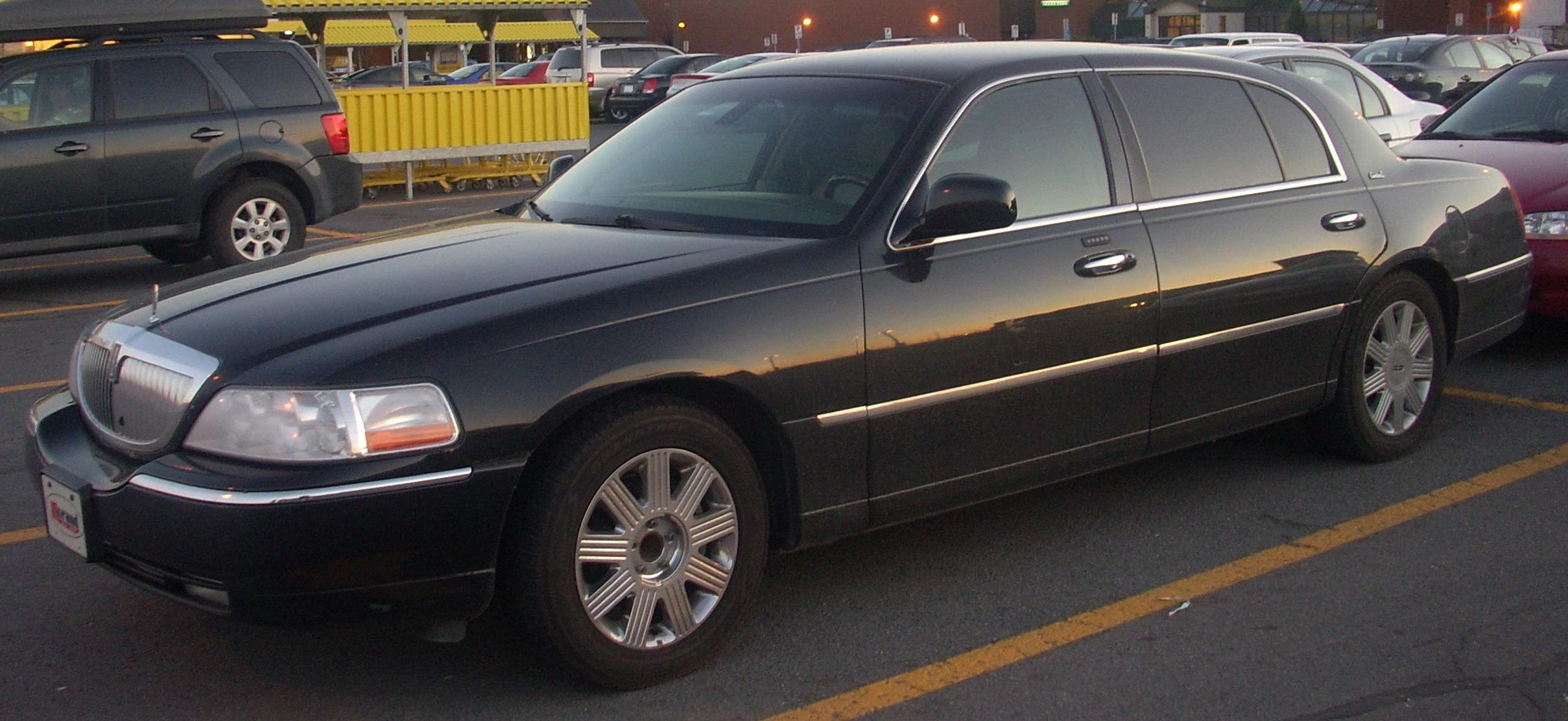 2003-present Lincoln Town Car photographed in Montreal, Quebec, Canada.